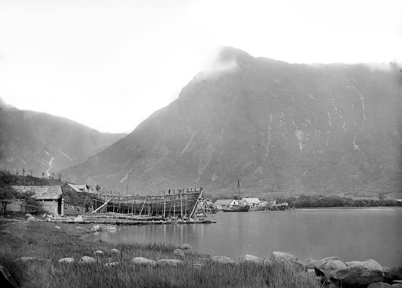 Skaalurens Skibsbyggeri, Rosendal, Kvinnherad. Norway. 1872 or 76.